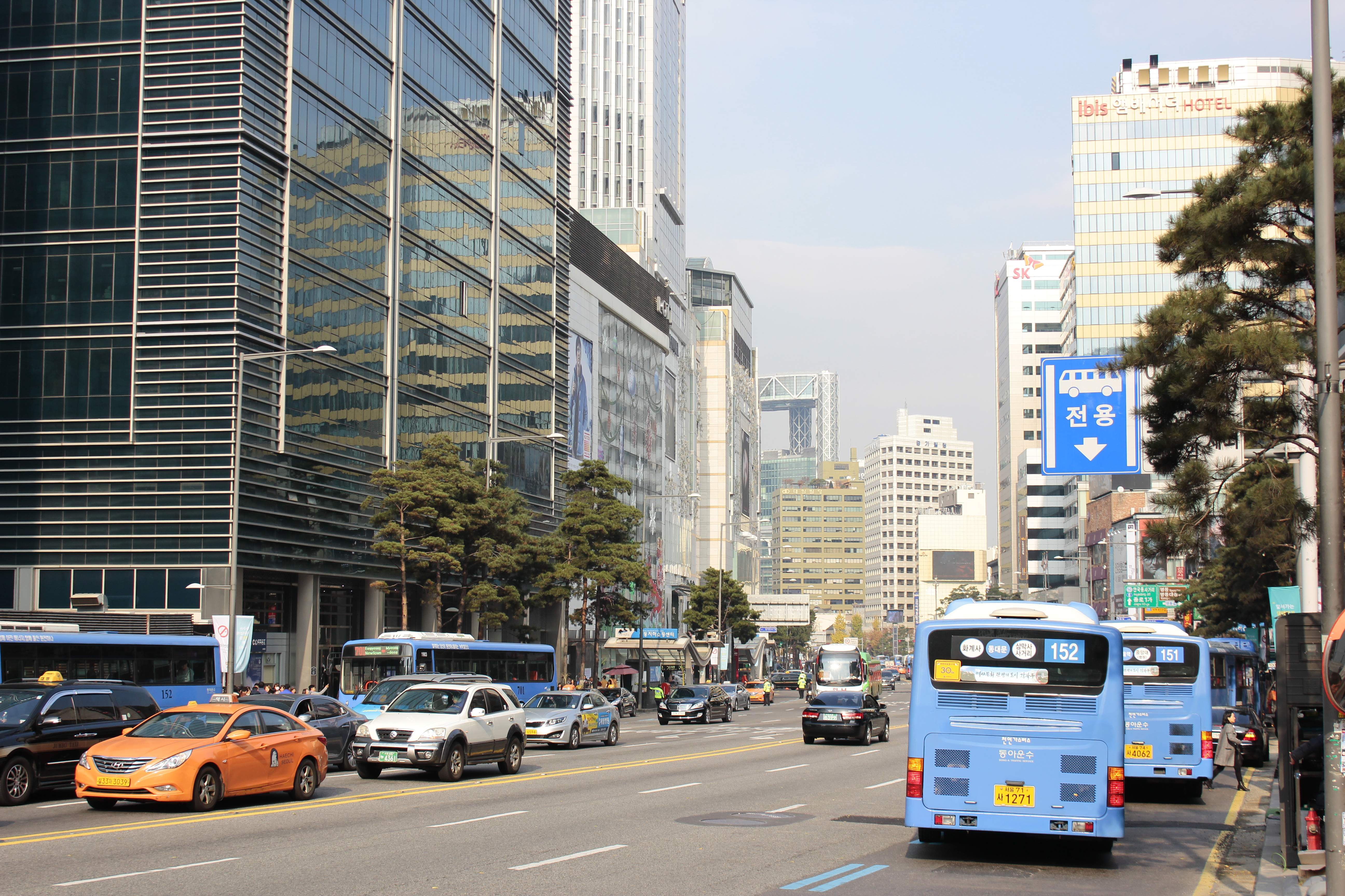 @Jung-gu, Seoul